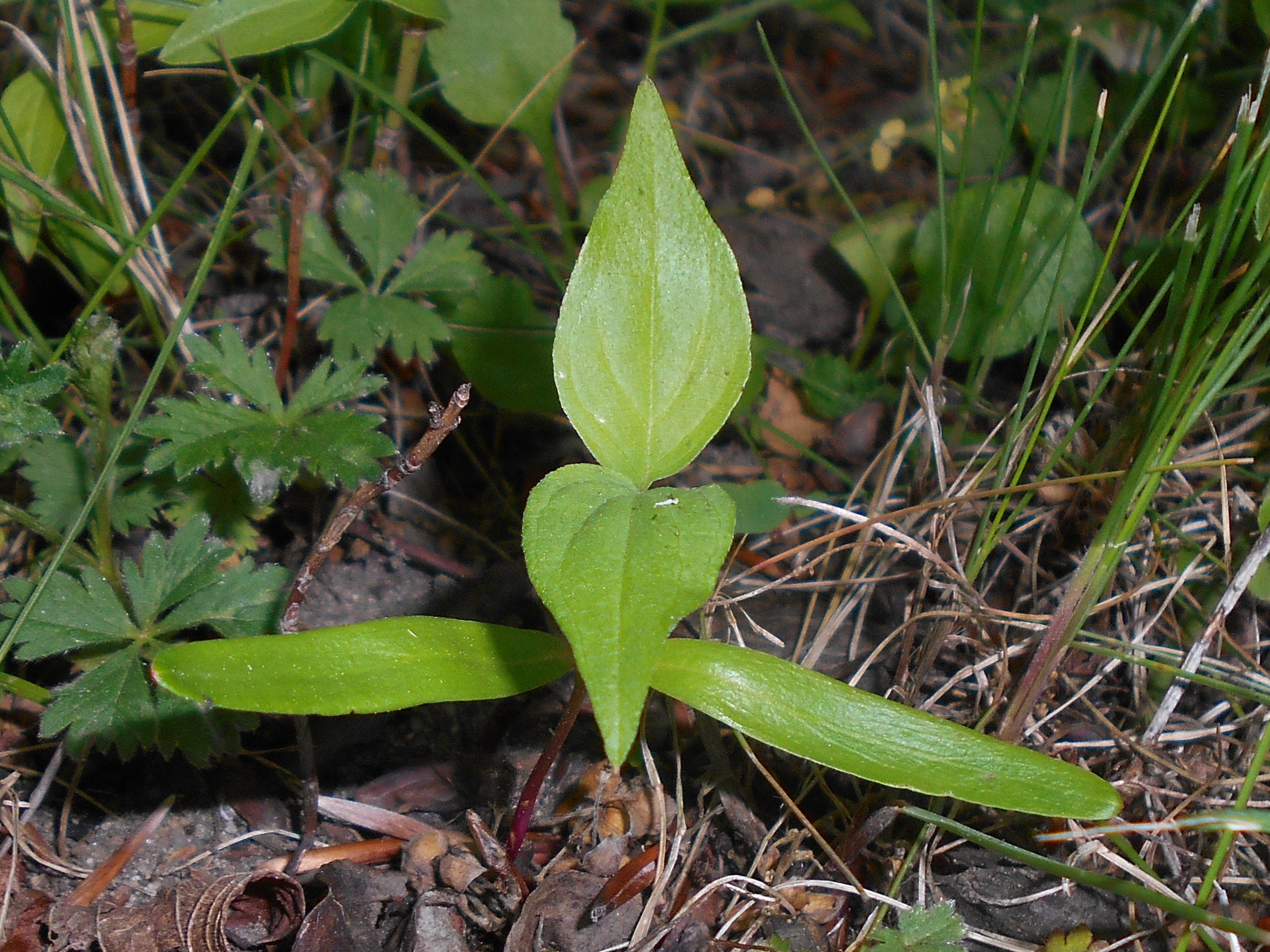 Cornus mas seedling, Berlin-Dahlem Botanical Garden.